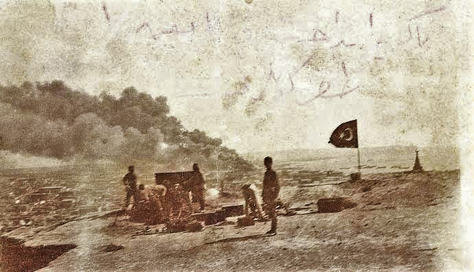 Azeri and turkish soldiers near Baku during Battle for the city in 1918